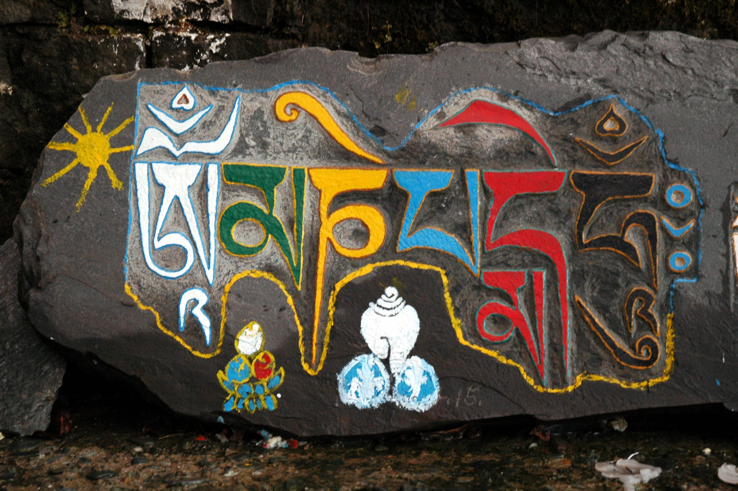 "Om mani padme hum" in Tibetan script, Dharamsala.